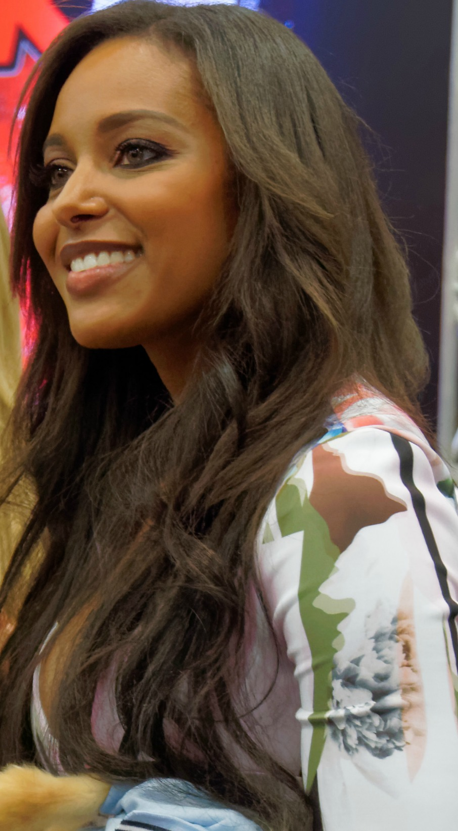 Eden during the WrestleMania 32 Axxess in April 1, 2016.